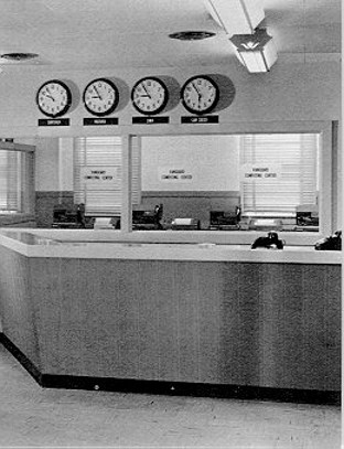 Vanguard project control room.